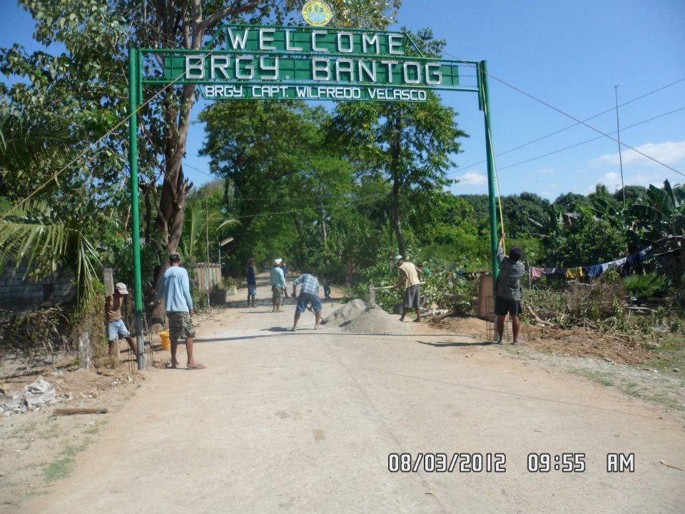 new arc Barangay Bantog, Anao, Tarlac